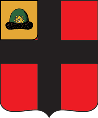 Spassk rayon (Ryazan oblast), coat of arms